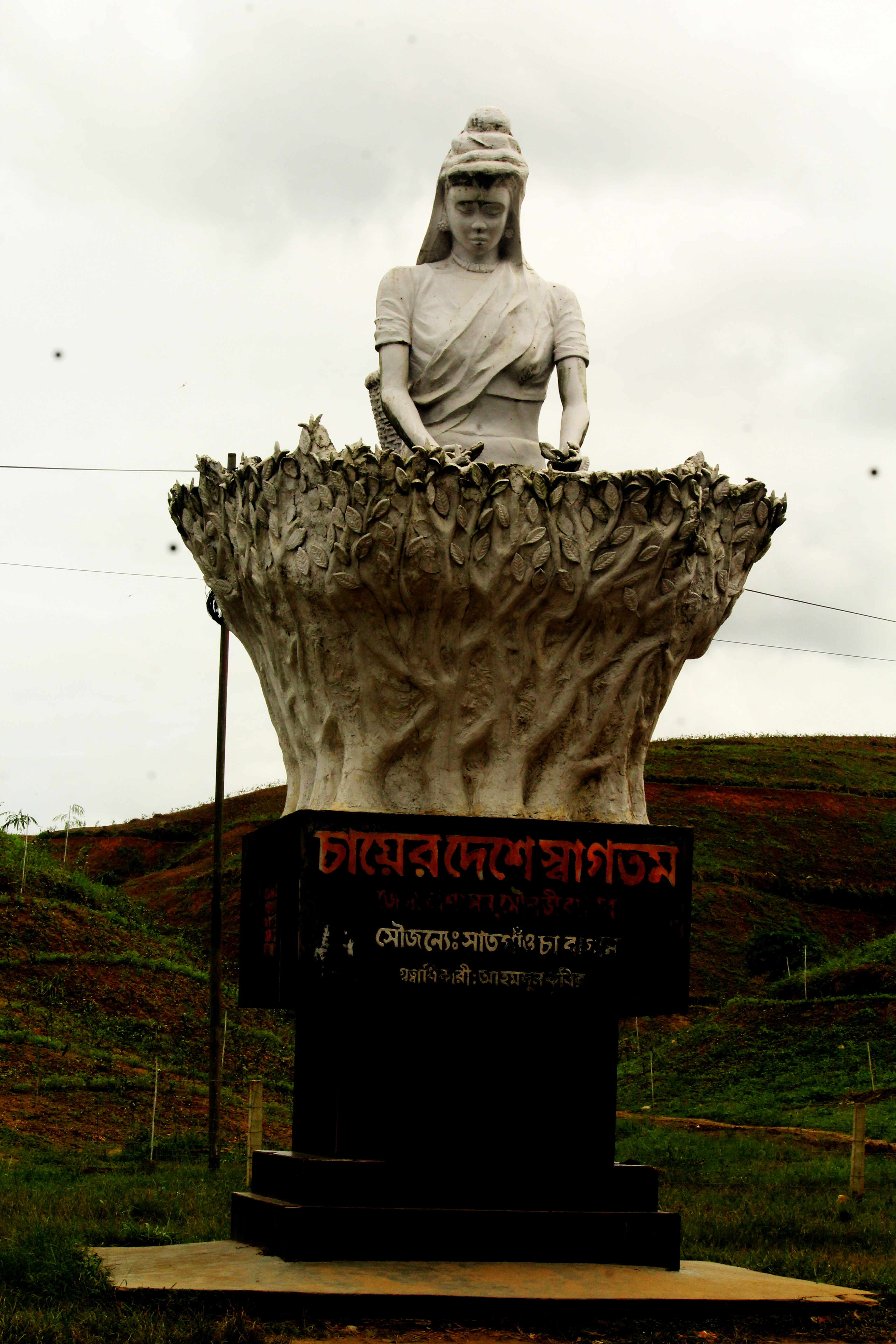 মৌলভীবাজার জেলায় অবস্থিত চা-কন্যা স্থাপত্য